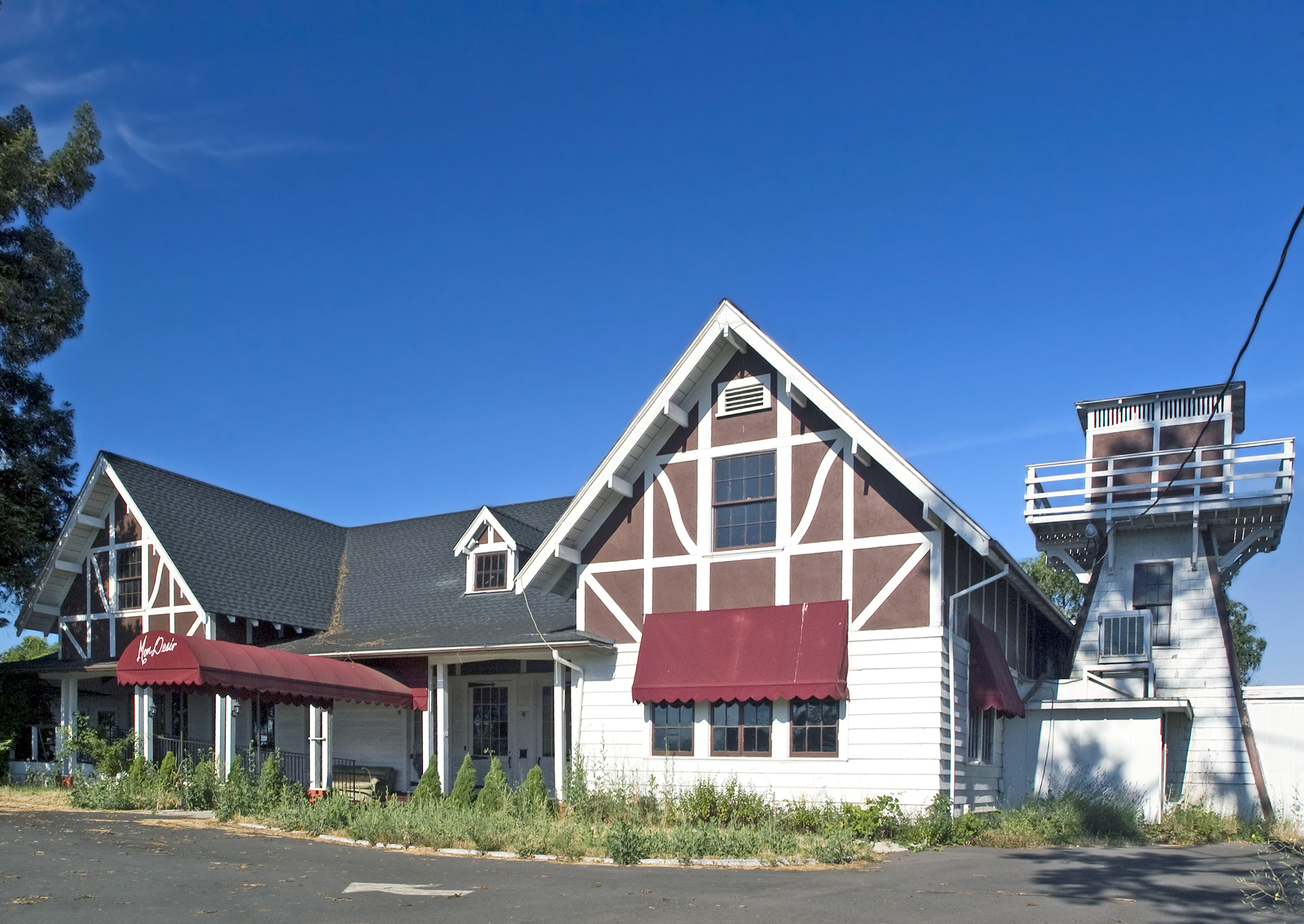 Listed on National Register of Historic Places in 1981. Destroyed by fire in 2010.